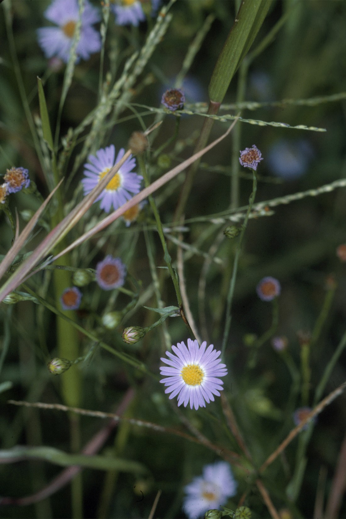 Symphyotrichum subulatum (Michx.) G.L. Nesom (eastern annual saltmarsh aster)